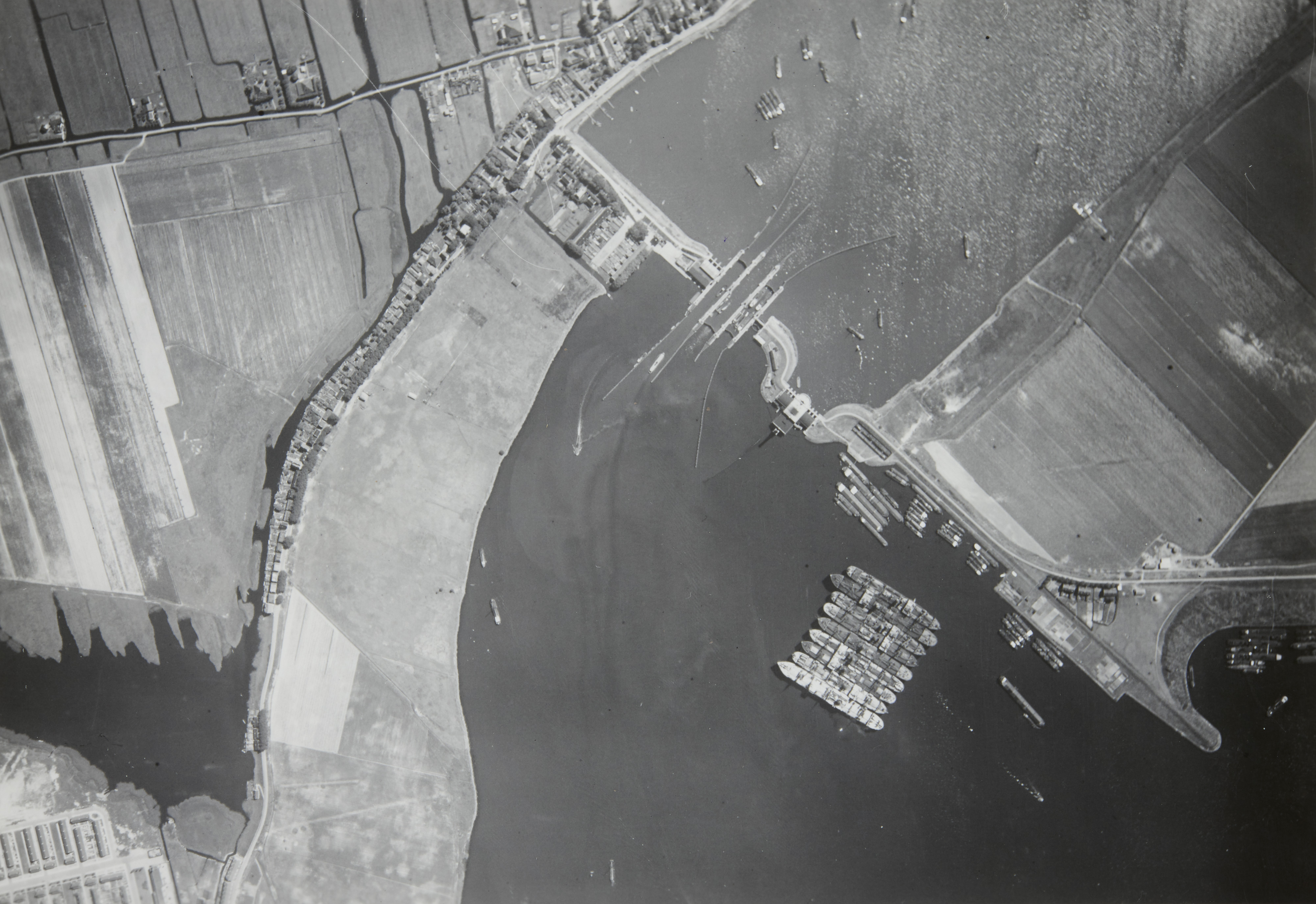 Aerial photograph of Schellingwoude Oranjesluizen Amsterdam in The Netherlands.